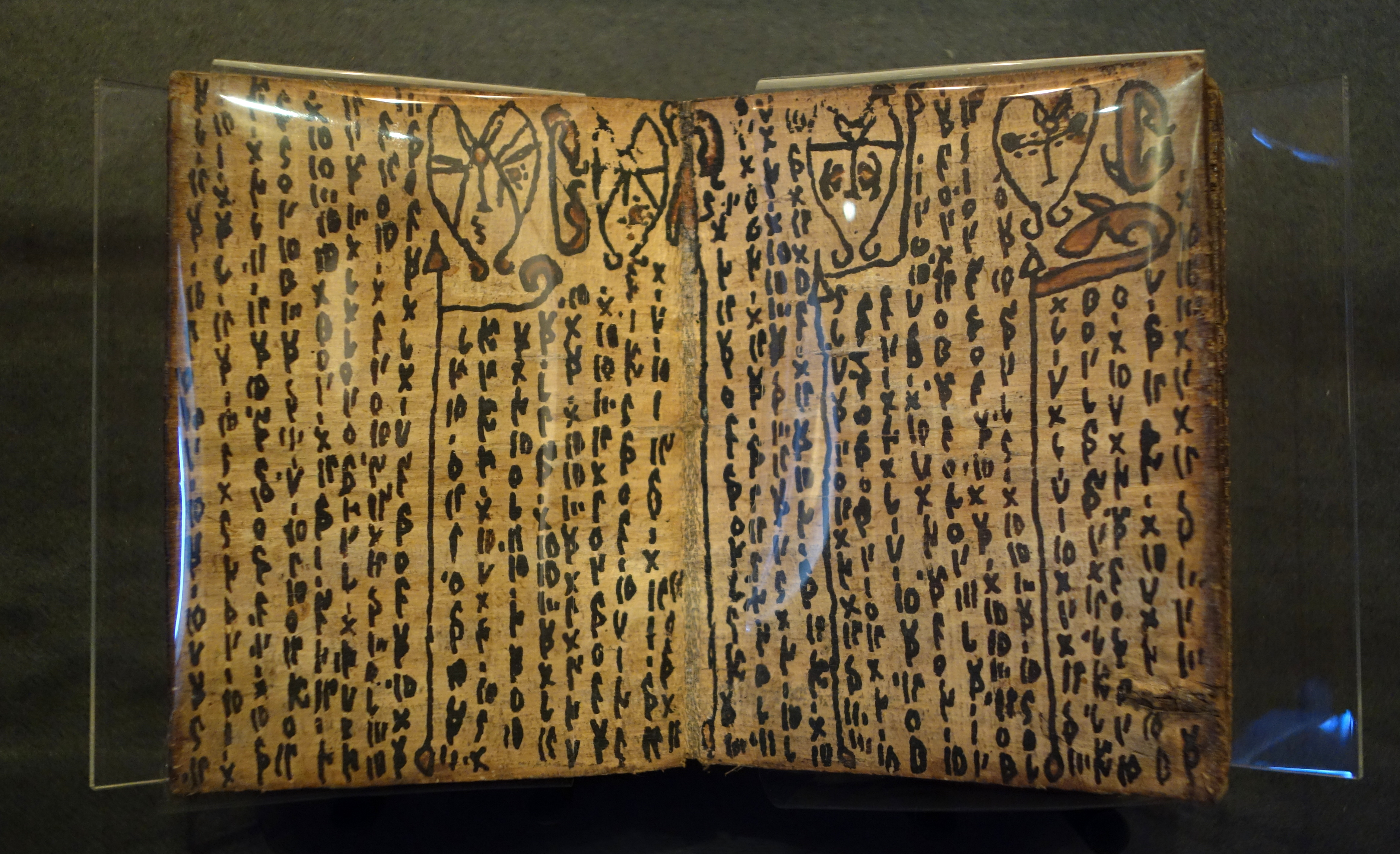 Exhibit in the Robert C. Williams Paper Museum, Atlanta, Georgia, USA. This work is old enough so that it is in the public domain.